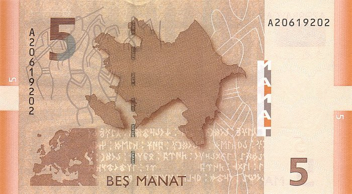 reverse of 5 AZN